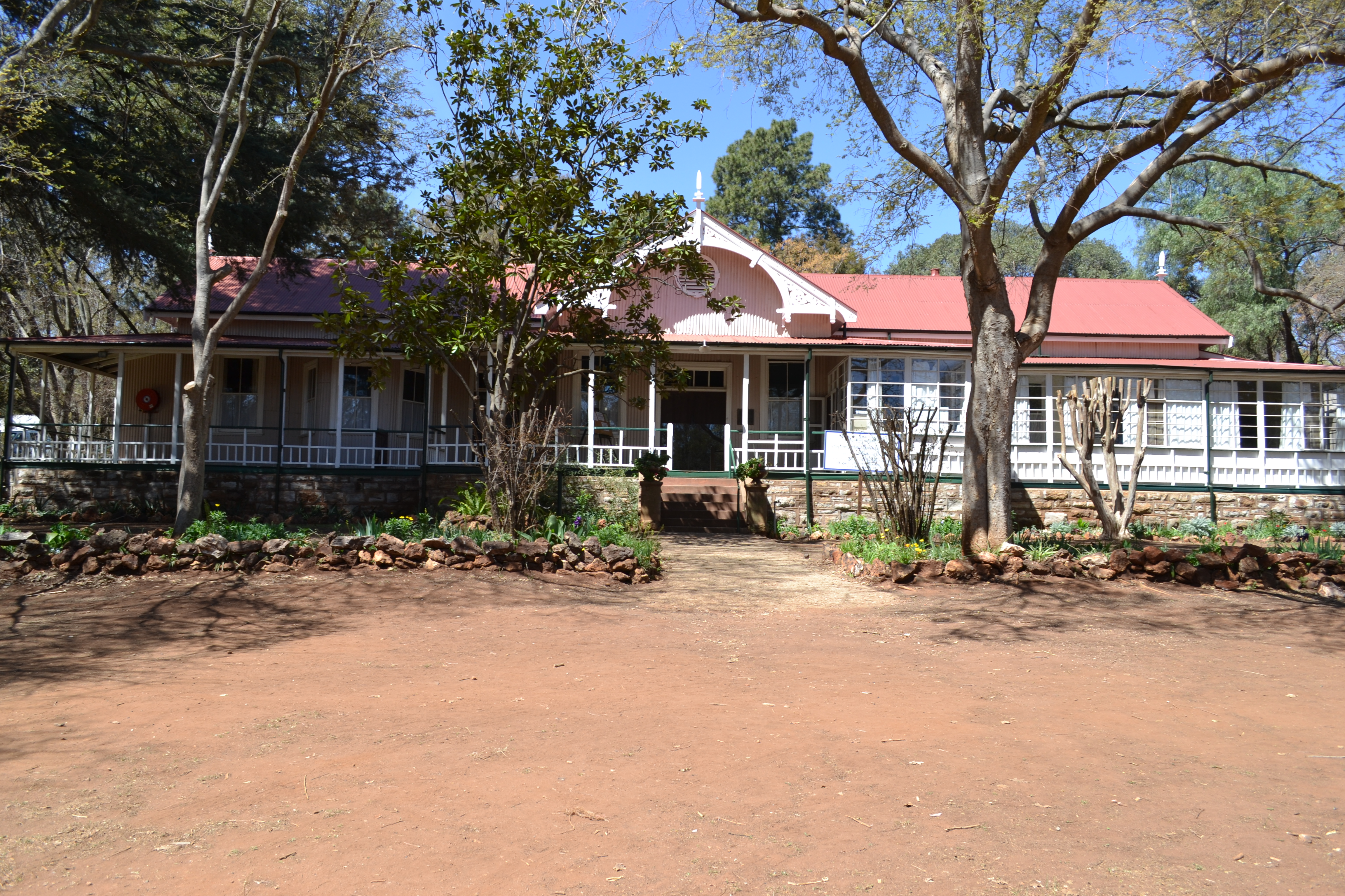 Smuts house Irene Pretoria This media shows a South African Protected Site with SAHRA file reference 9/2/258/0064.